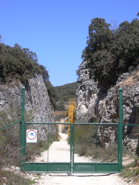 Atapuerca railroad trench, Spain